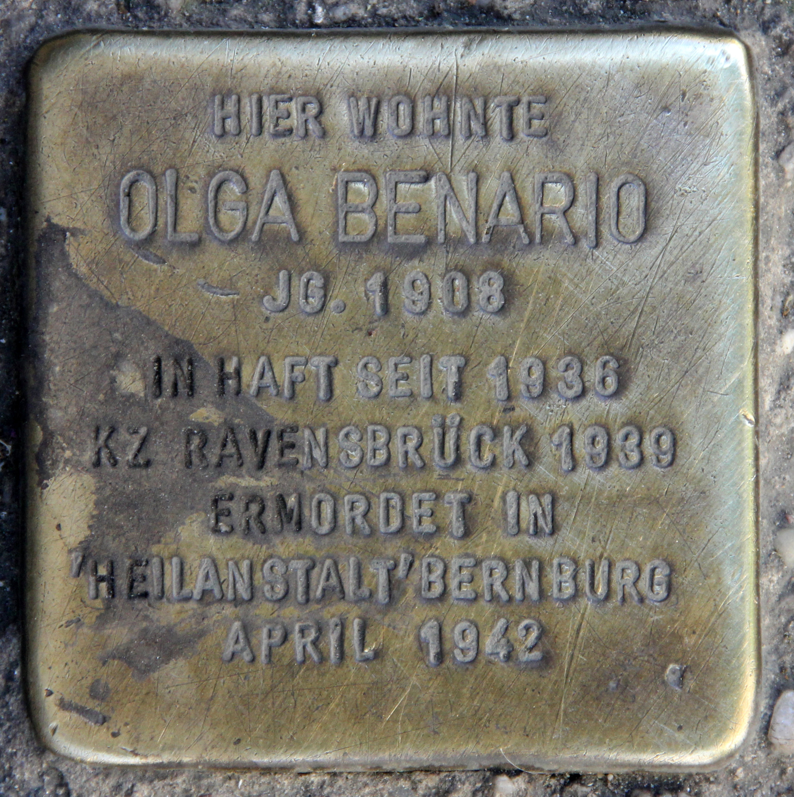 "Stolperstein" (stumbling block), Olga Benario, Innstraße 24, Berlin-Neukölln, Germany